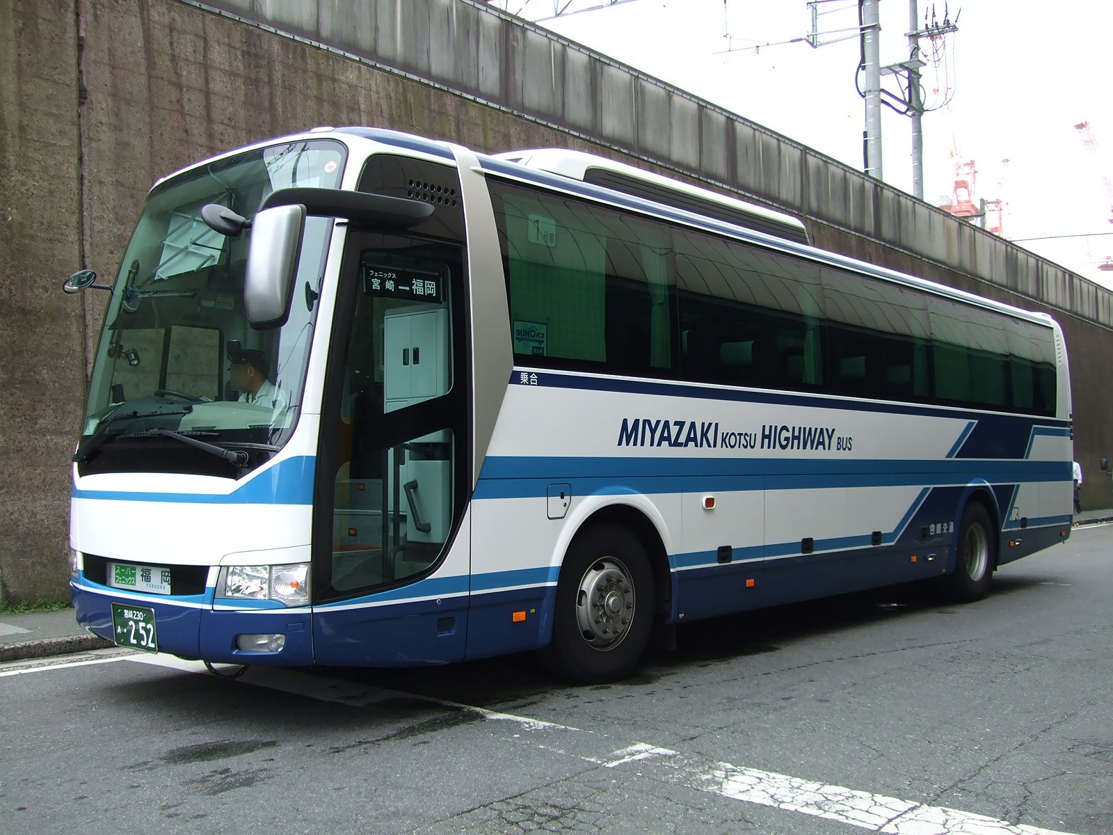 Company:Miyazaki Kotsu Use:transit bus (highway bus) Car license:宮崎230 あ・252 Belongs to:Tour and highway bus depot Chassis manufacturer:Mitsubishi Fuso Truck and Bus Corporation Coachbuilder:Mitsubishi FUSO Bus Manufacturing Location:Hakata station transport center, in Hakata-ku, Fukuoka City, Fukuoka, Japan